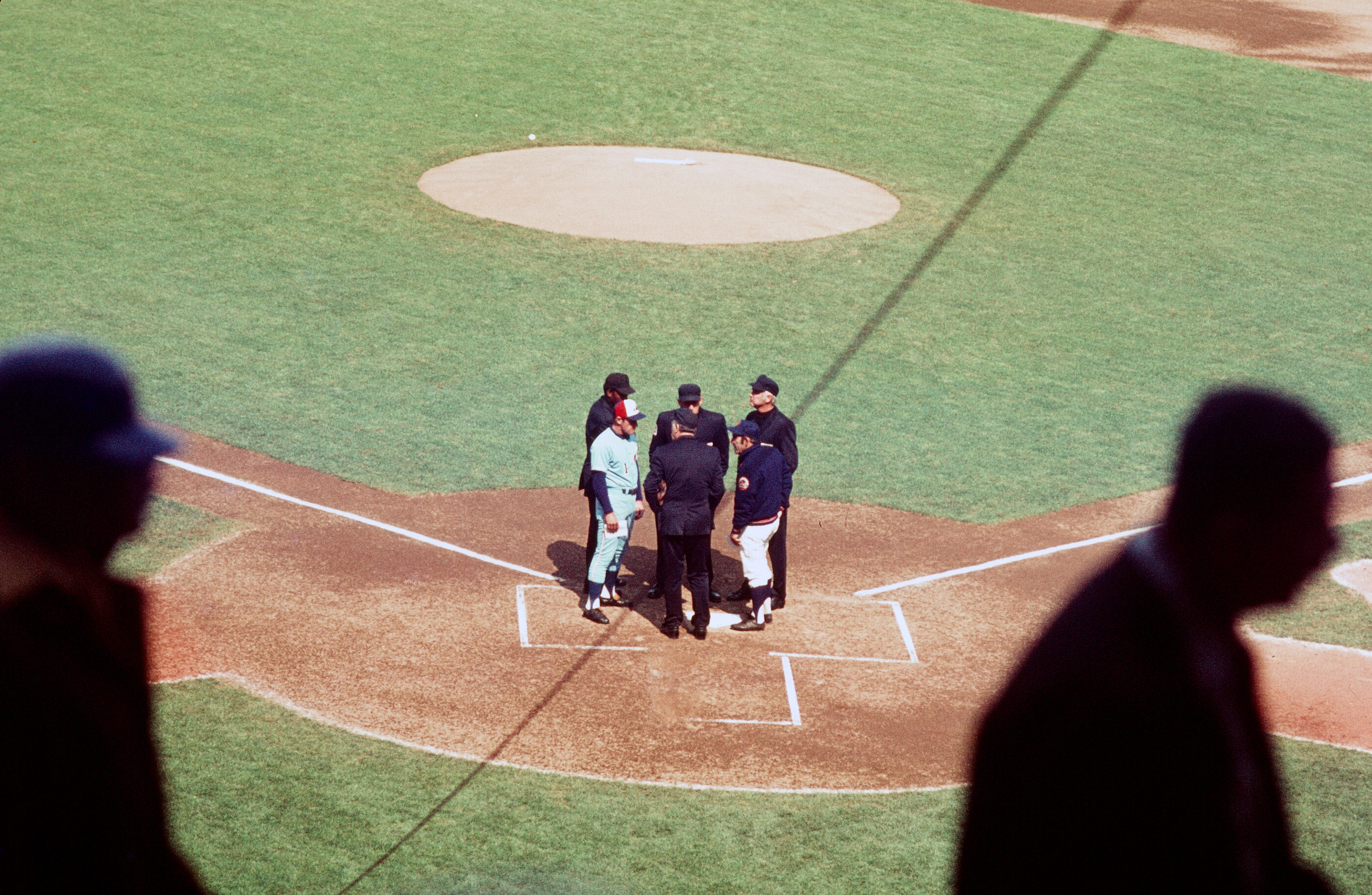 Umpires and coaches of Montreal Expos and New York Mets meet at home plate, probably on July 11-13, 1969.